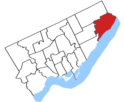 Map of the Scarborough East electoral district showing its borders from 1996 to 2004. Created by SimonP.